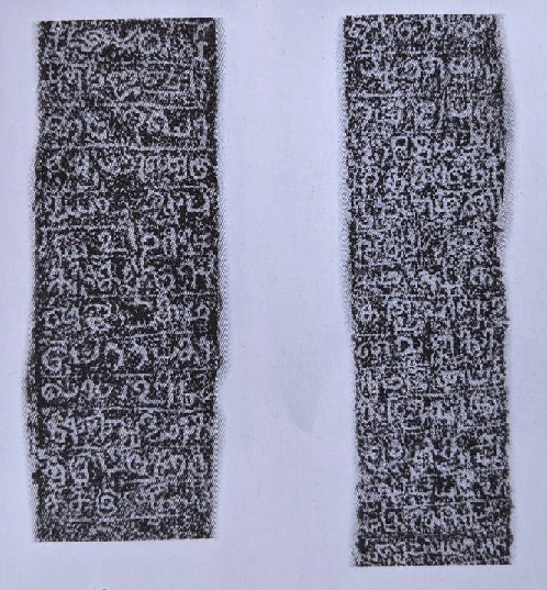 Moragahavela inscription of Jayabahu I